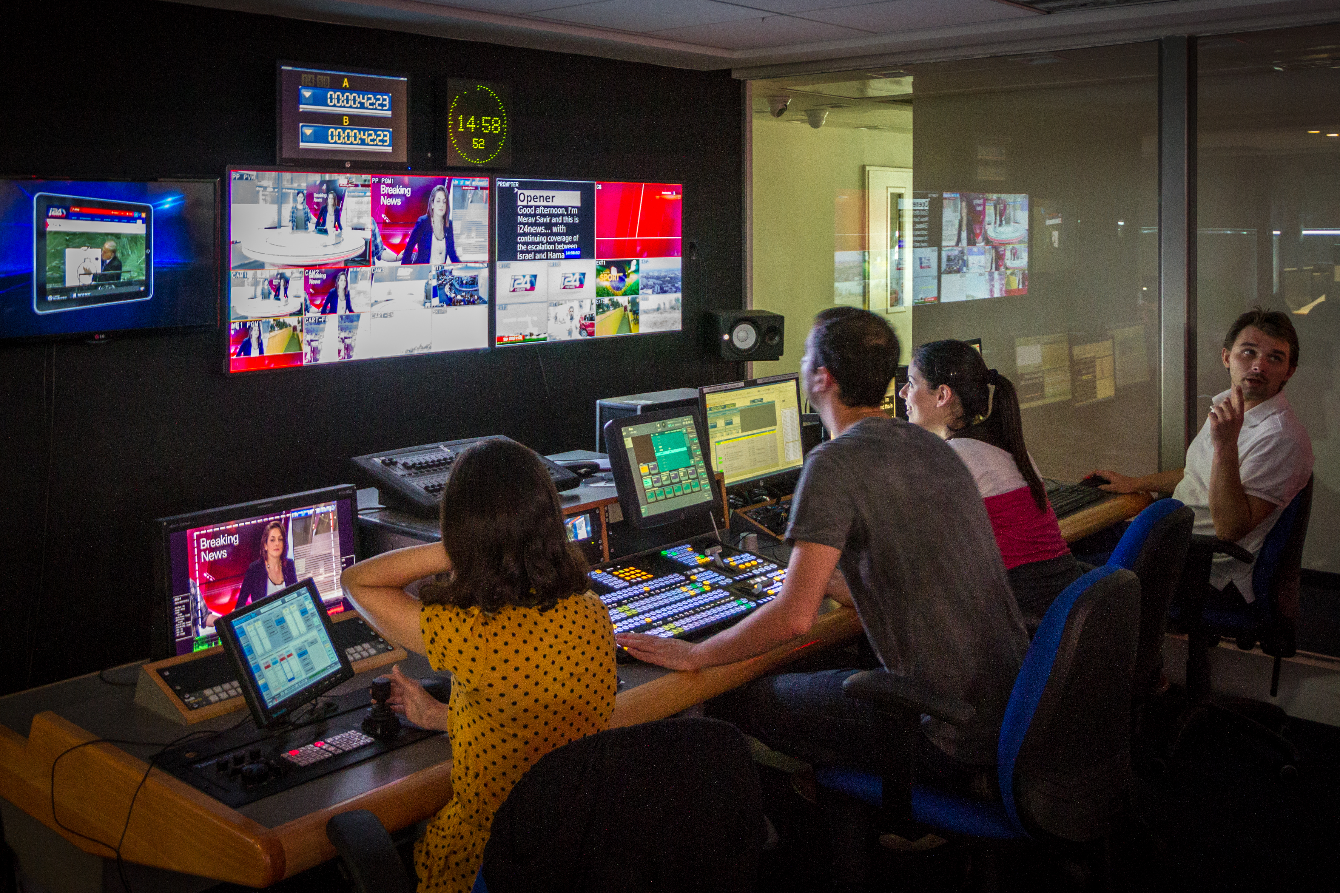 I24news Tel Aviv Yaffo 14 juillet 2014